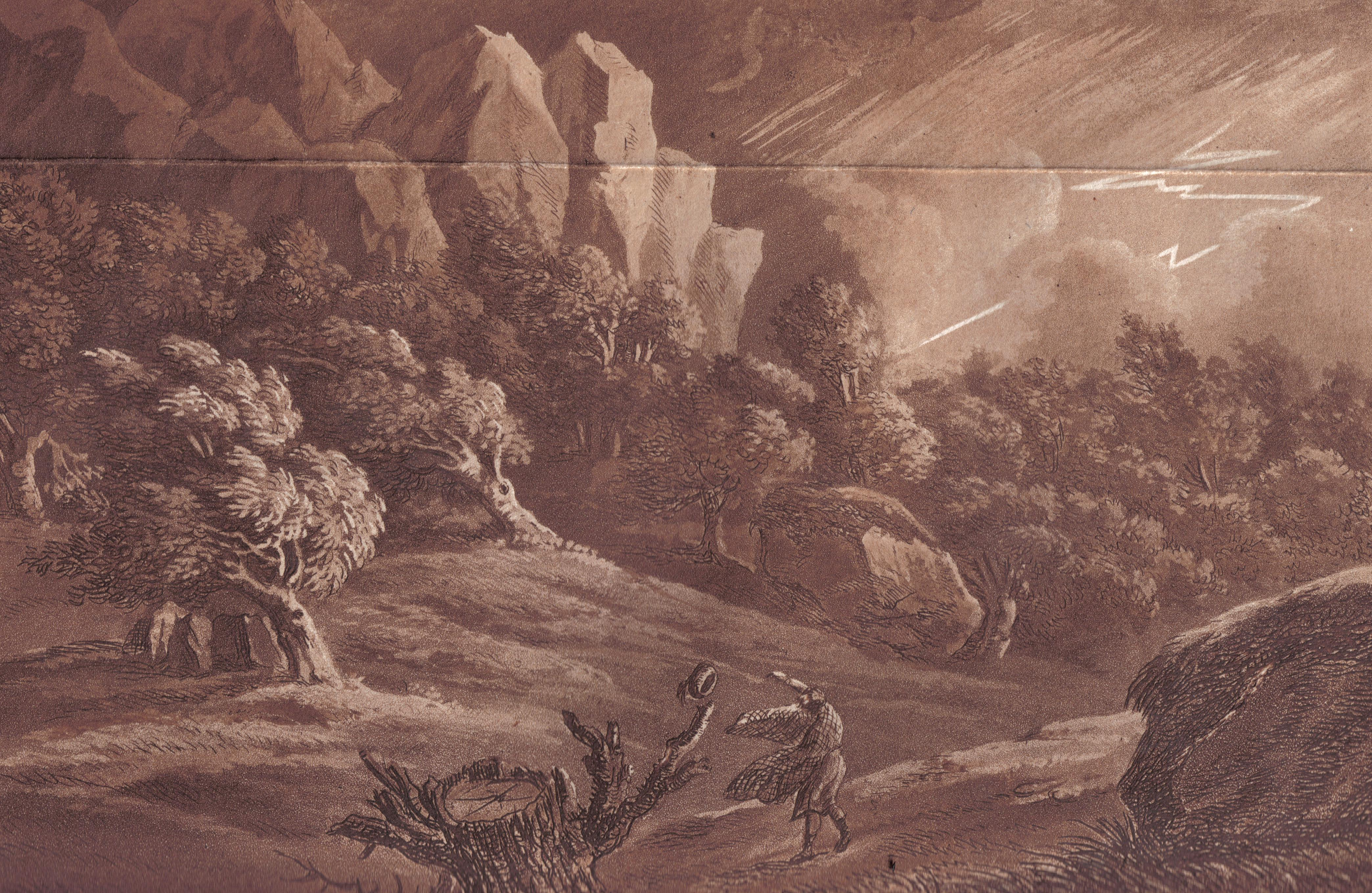 Birnam Wood, MacBeth, Scotland.